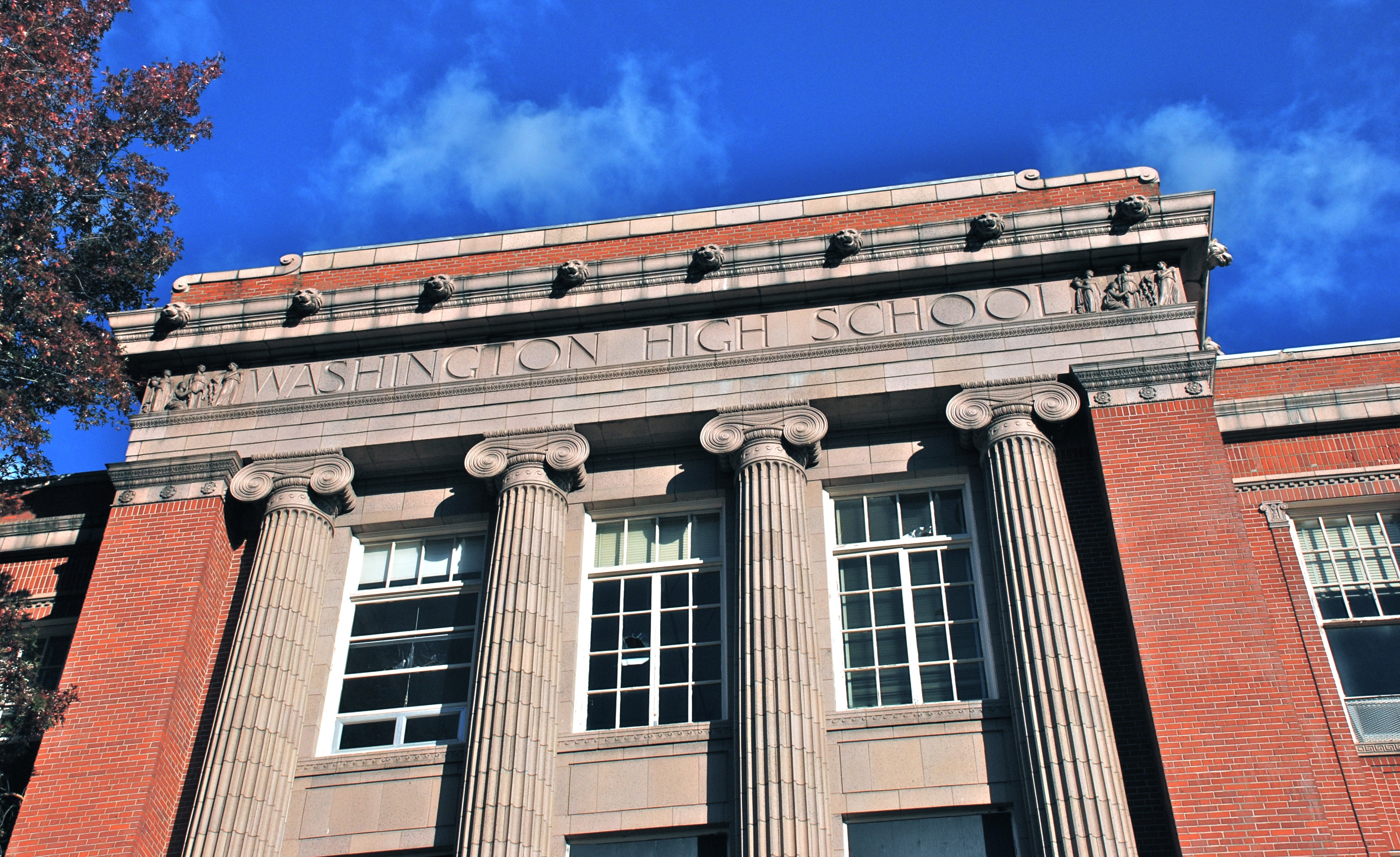 The former Washington High School, in Portland, Oregon. This photo shows the entablature displaying the school's name on the building's west side (front), and a portion of the fourth floor, above the main entrance. The high school closed in 1981.